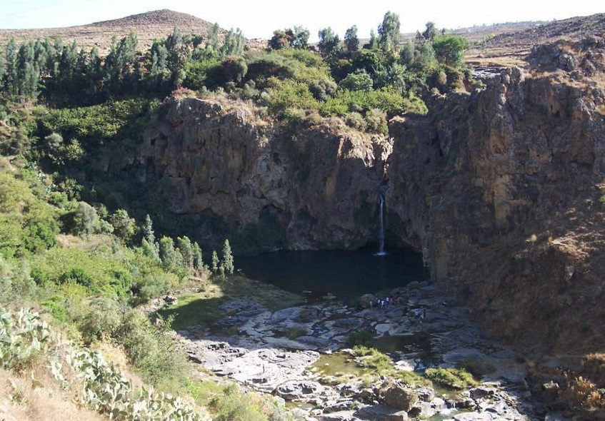 Ilala Romanat waterfall 1